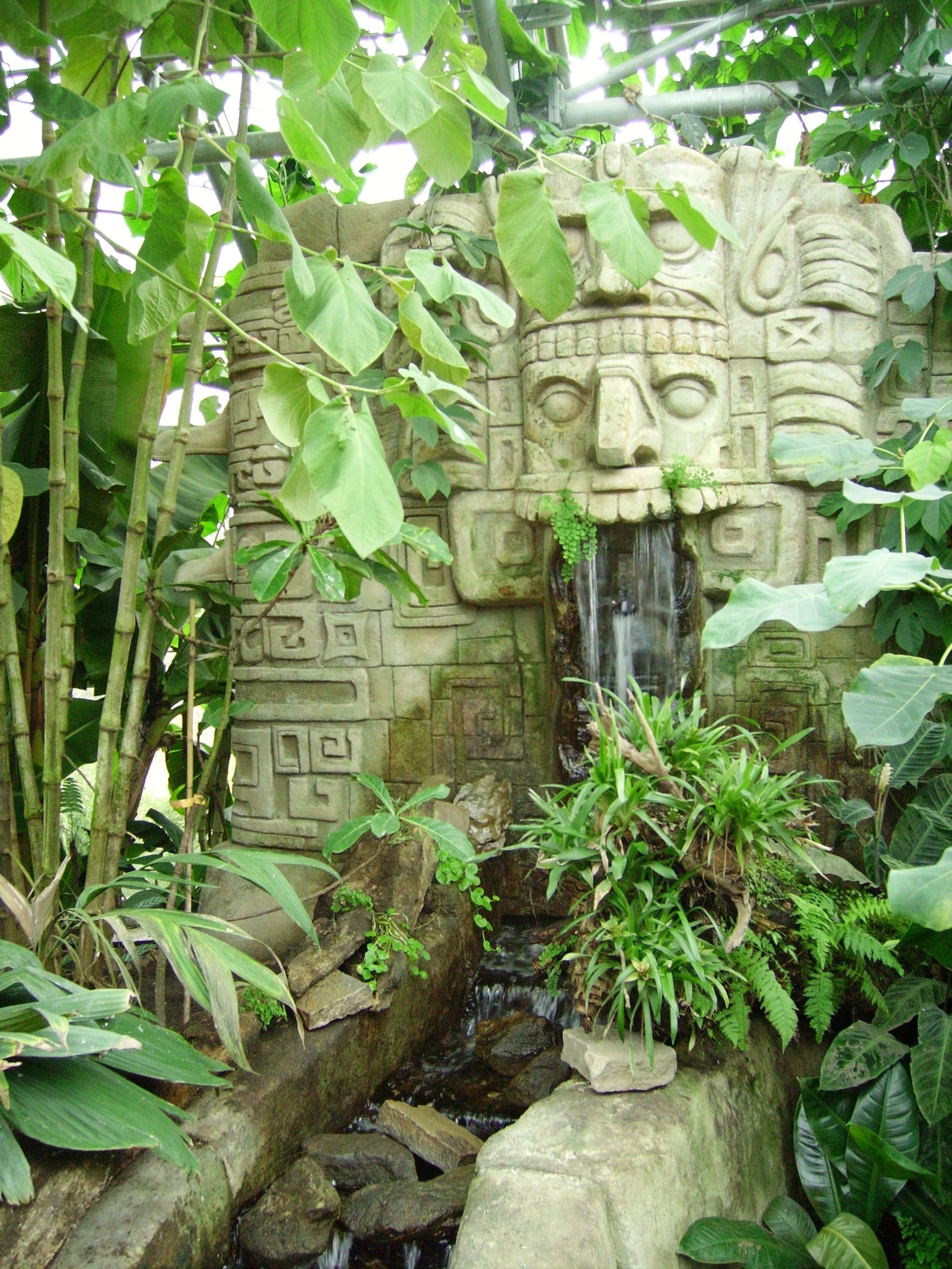 Tropical pavilion in Zoo Zlín